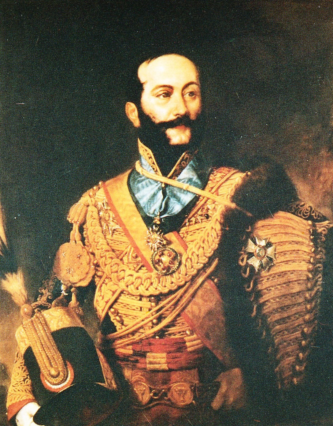 General Ventura (Finale 1794.Toulouse 1858)